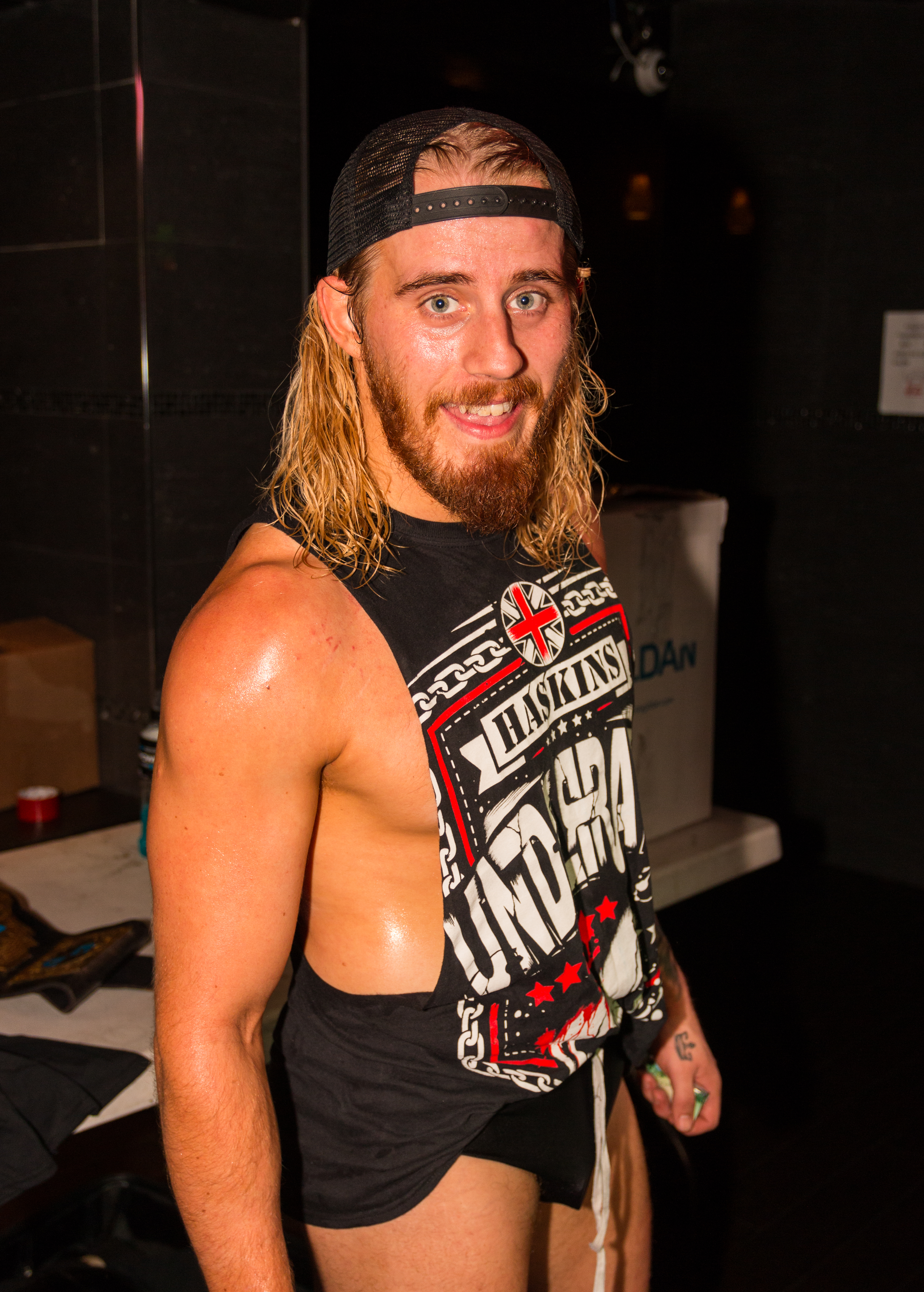 Independent wrestler Mark Haskins at Smash Wrestling's Smash Vs Progress: Uncensored show in Oshawa, ON